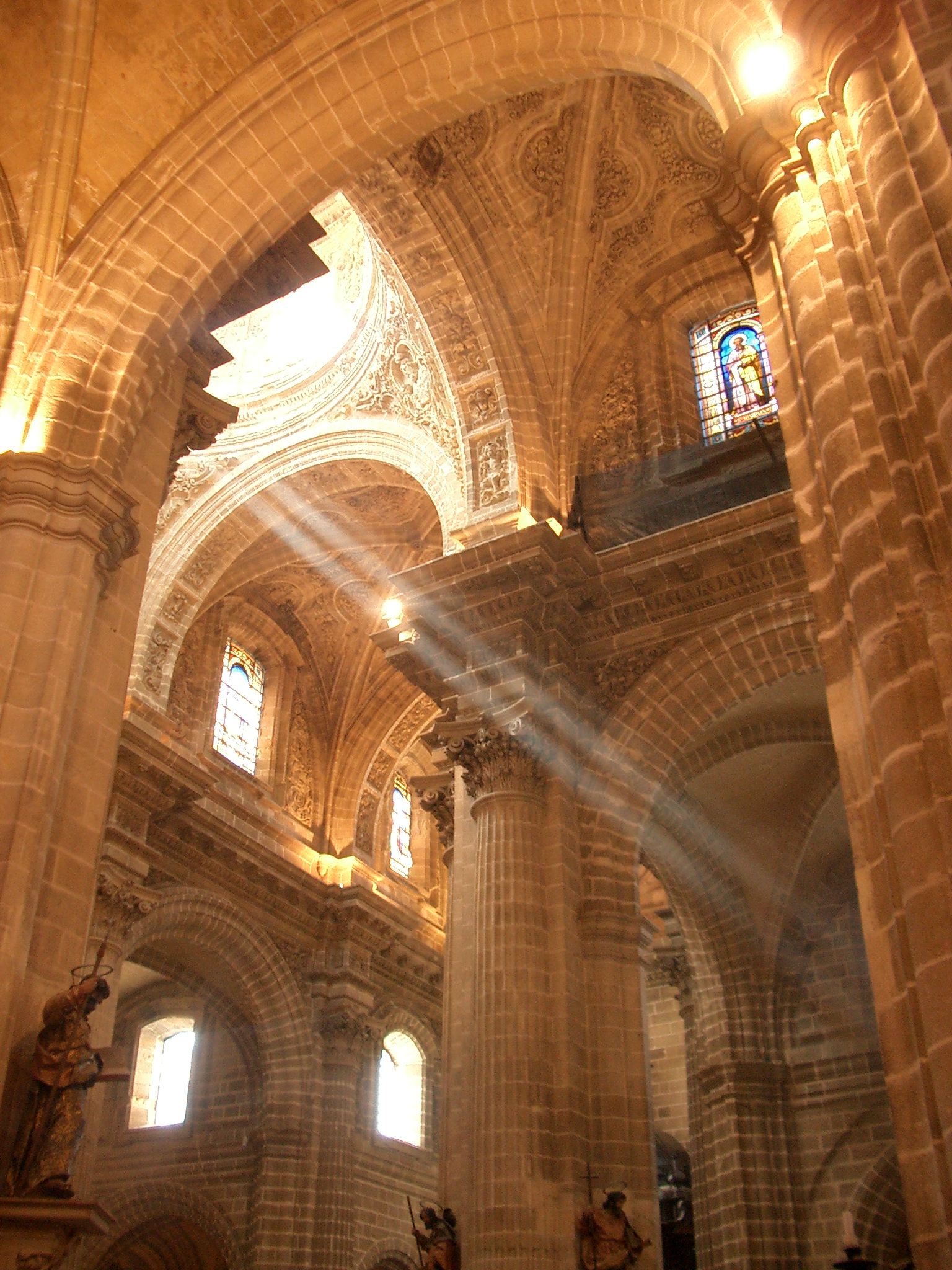 Cathedral of Jerez de la Frontera (Andalusia, Spain)